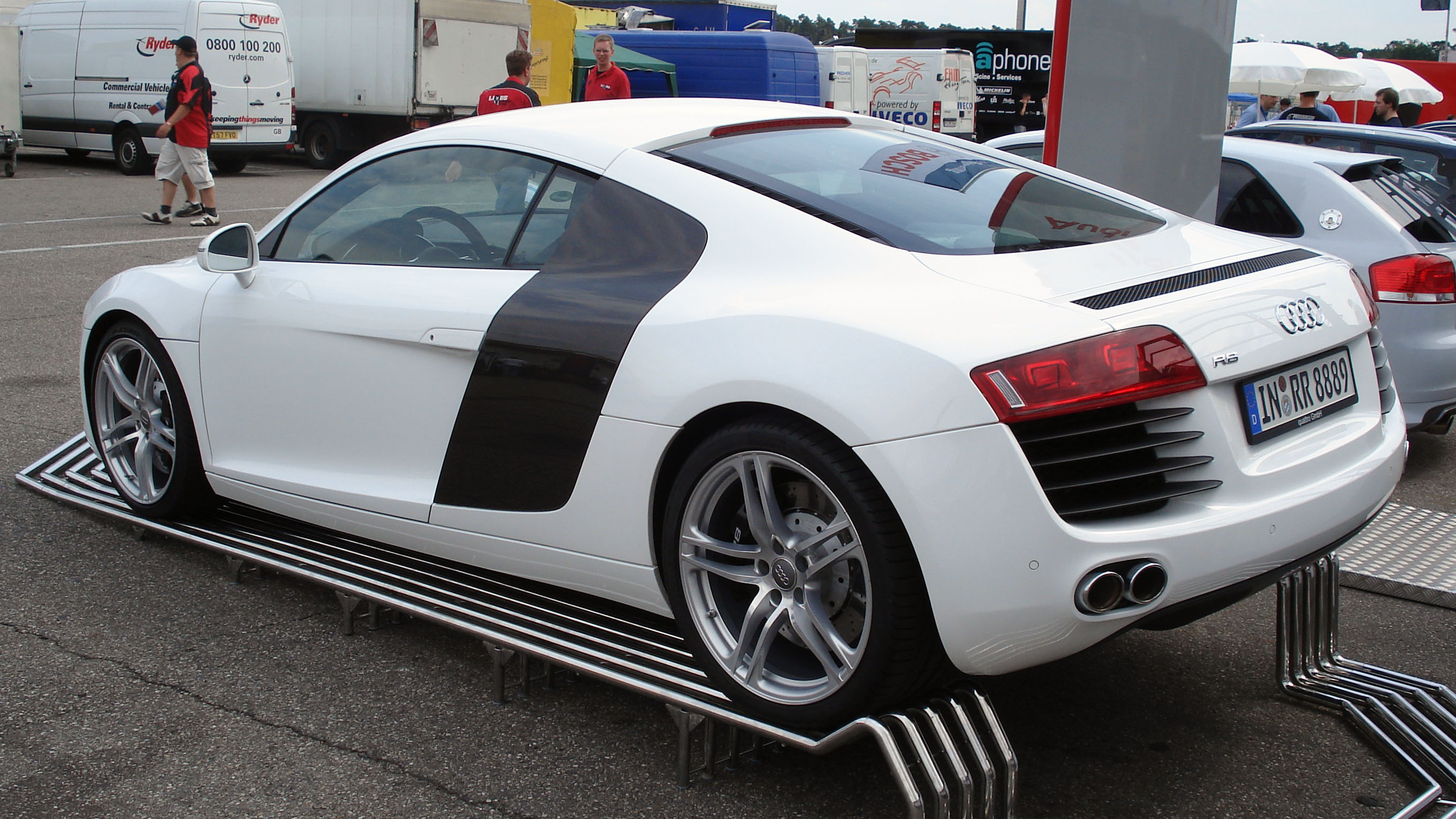 Audi R8 at the Formula Student Germany event 2008.